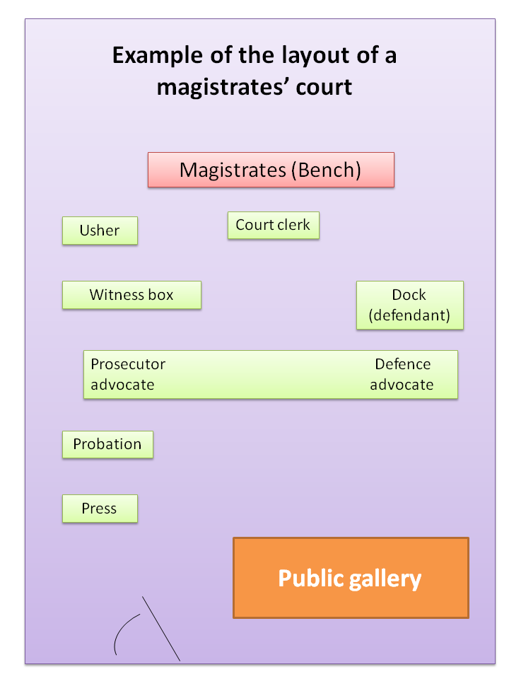 Magistrates' court room layout